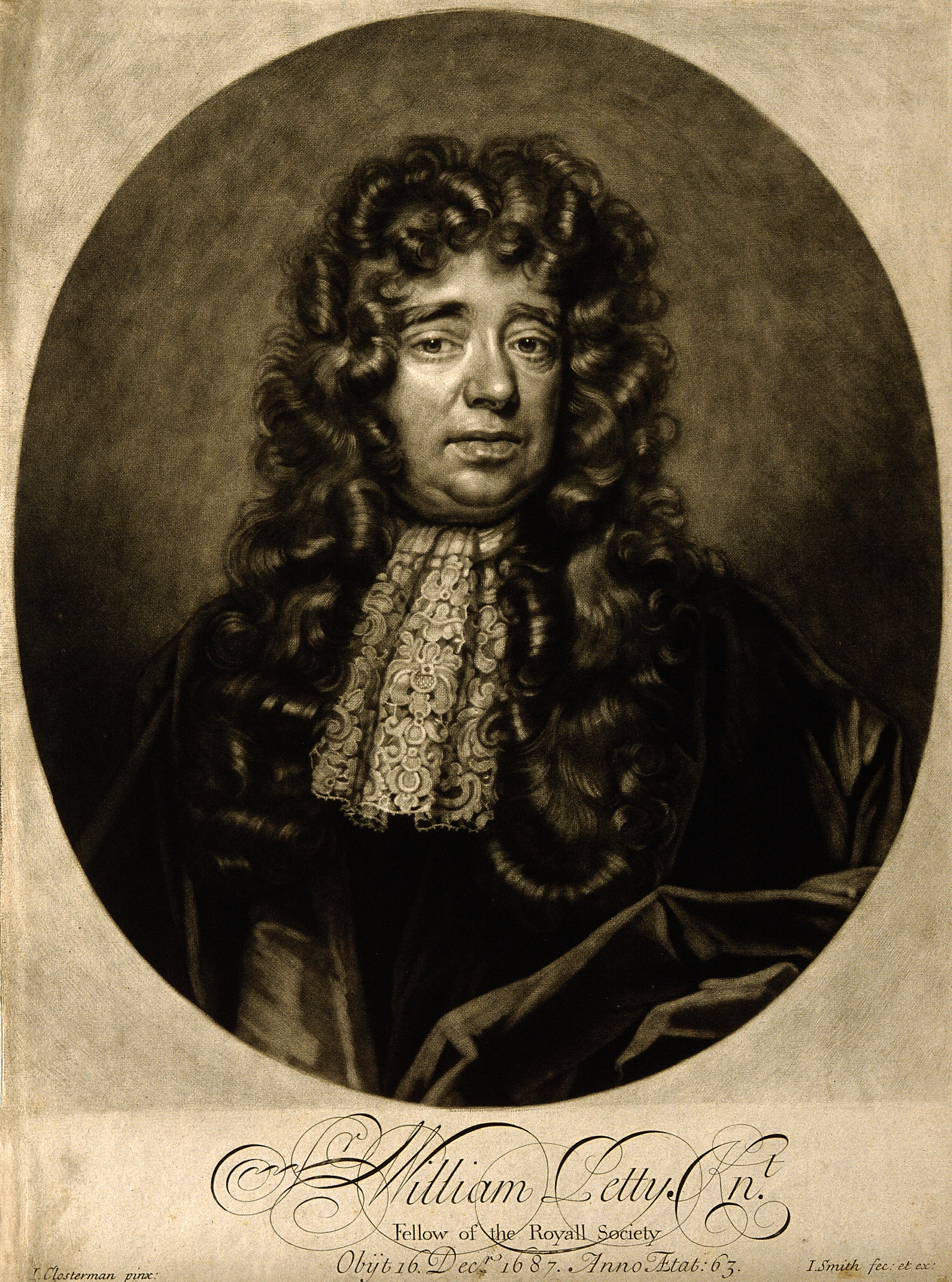 Sir William Petty. Mezzotint by J. Smith, 1696, after J. Closterman. Iconographic Collections Keywords: portrait prints; mezzotints; William Petty